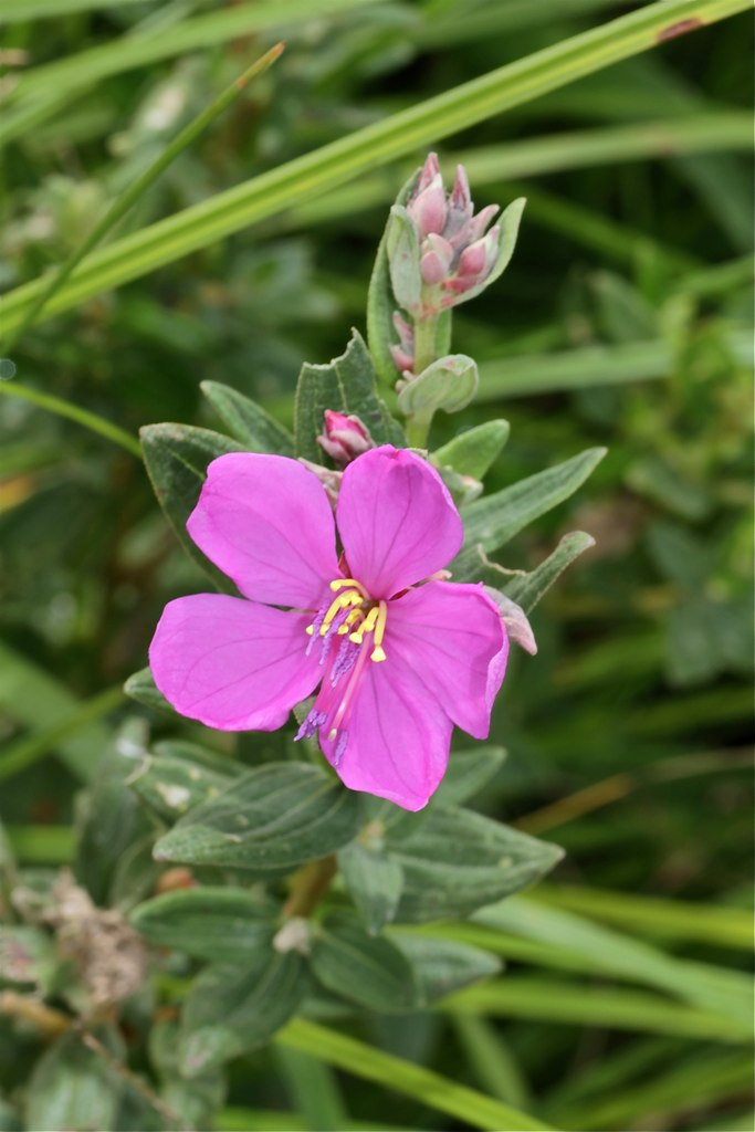 South Africa. Vernon Crookes Nature Reserve.